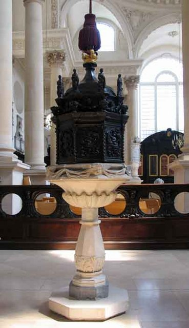 St Stephen Walbrook, Walbrook, City of London EC4N 8BN - Font, near to London, City of London, Great Britain.